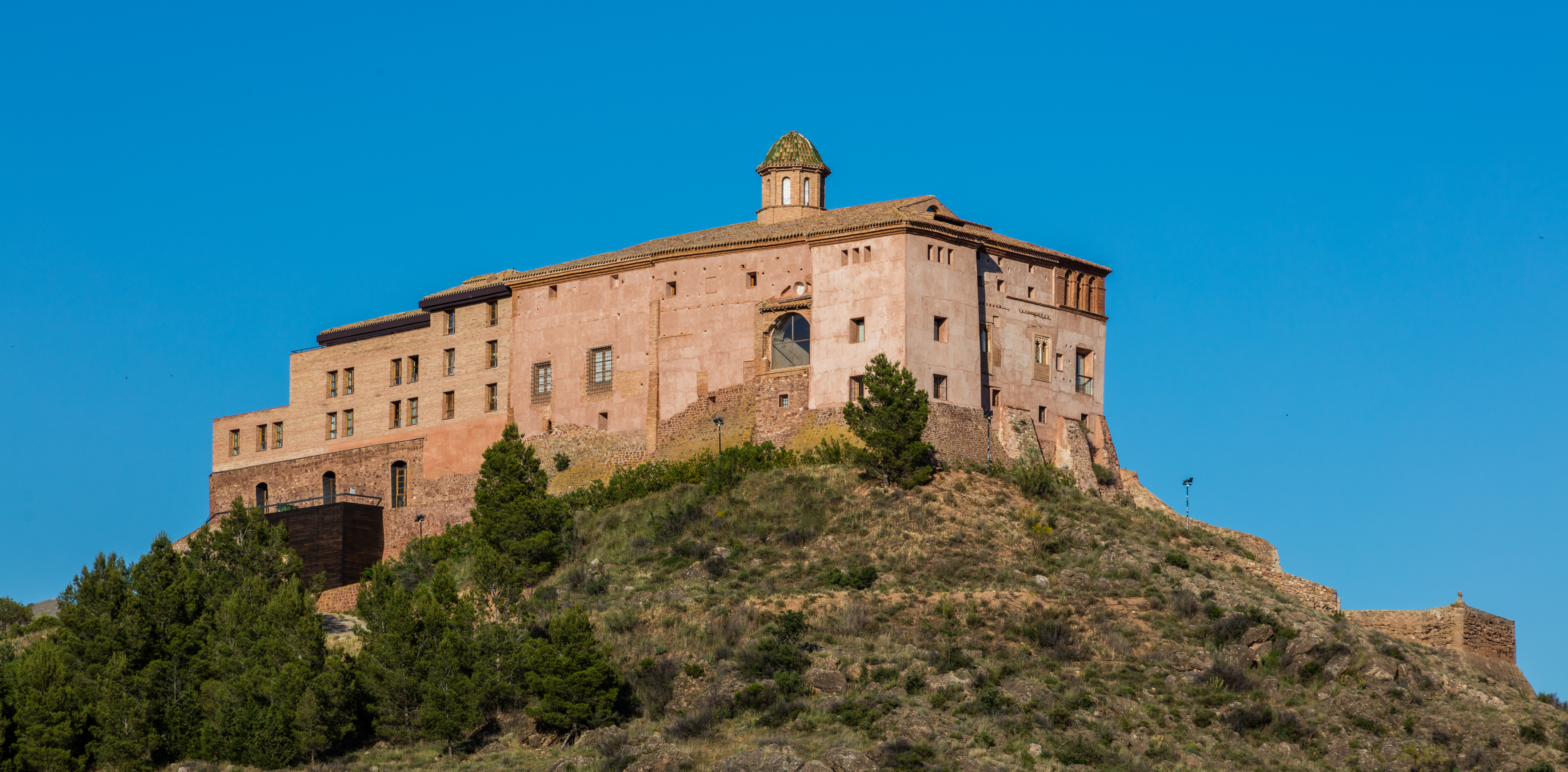 Papa Luna Palace, Illueca, Zaragoza, Spain